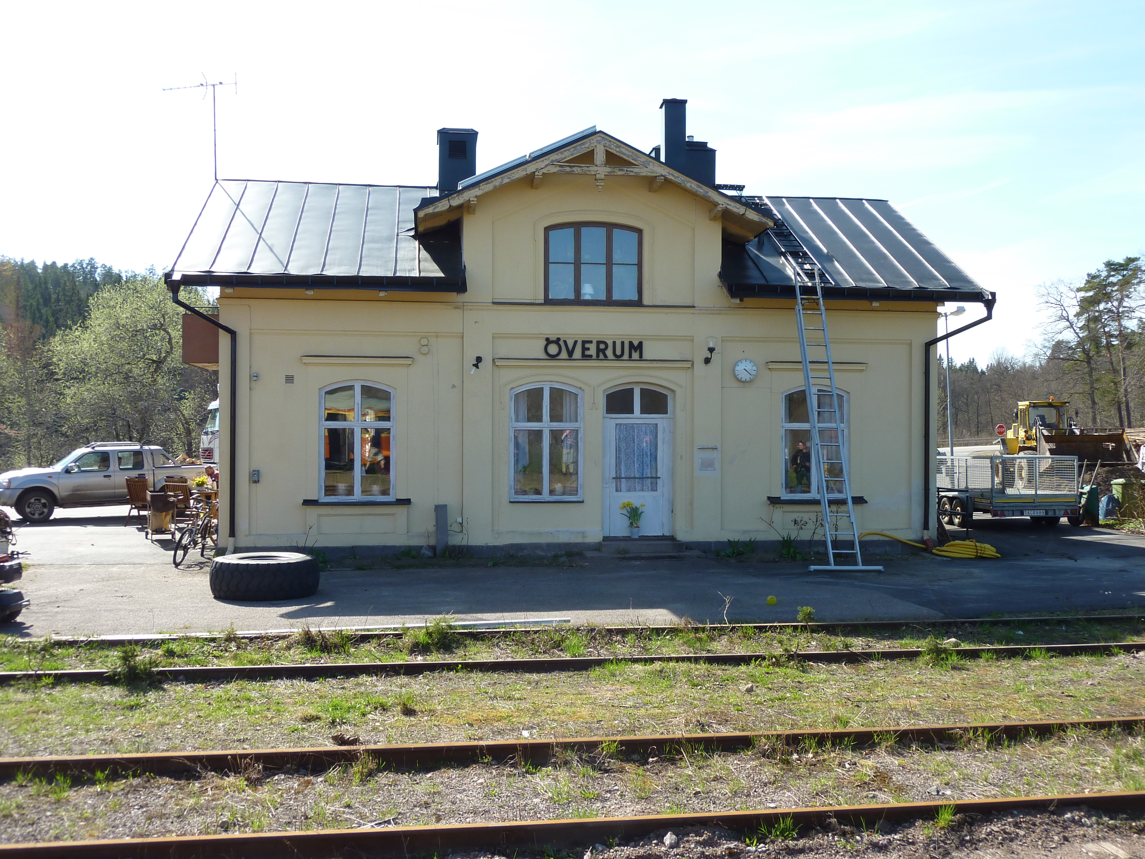 Railway station Överum in Sweden